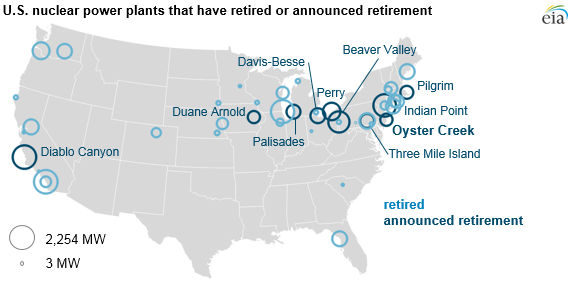 When a nuclear plant retires, it stops producing electricity and enters into the decommissioning phase. Decommissioning involves removing and safely storing spent nuclear fuel, decontaminating the plant to reduce residual radioactivity, dismantling plant structures, removing contaminated materials to disposal facilities, and then releasing the property for other uses once the NRC has determined the site is safe.